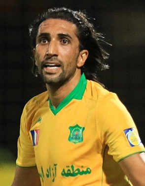 Karrar Jassim